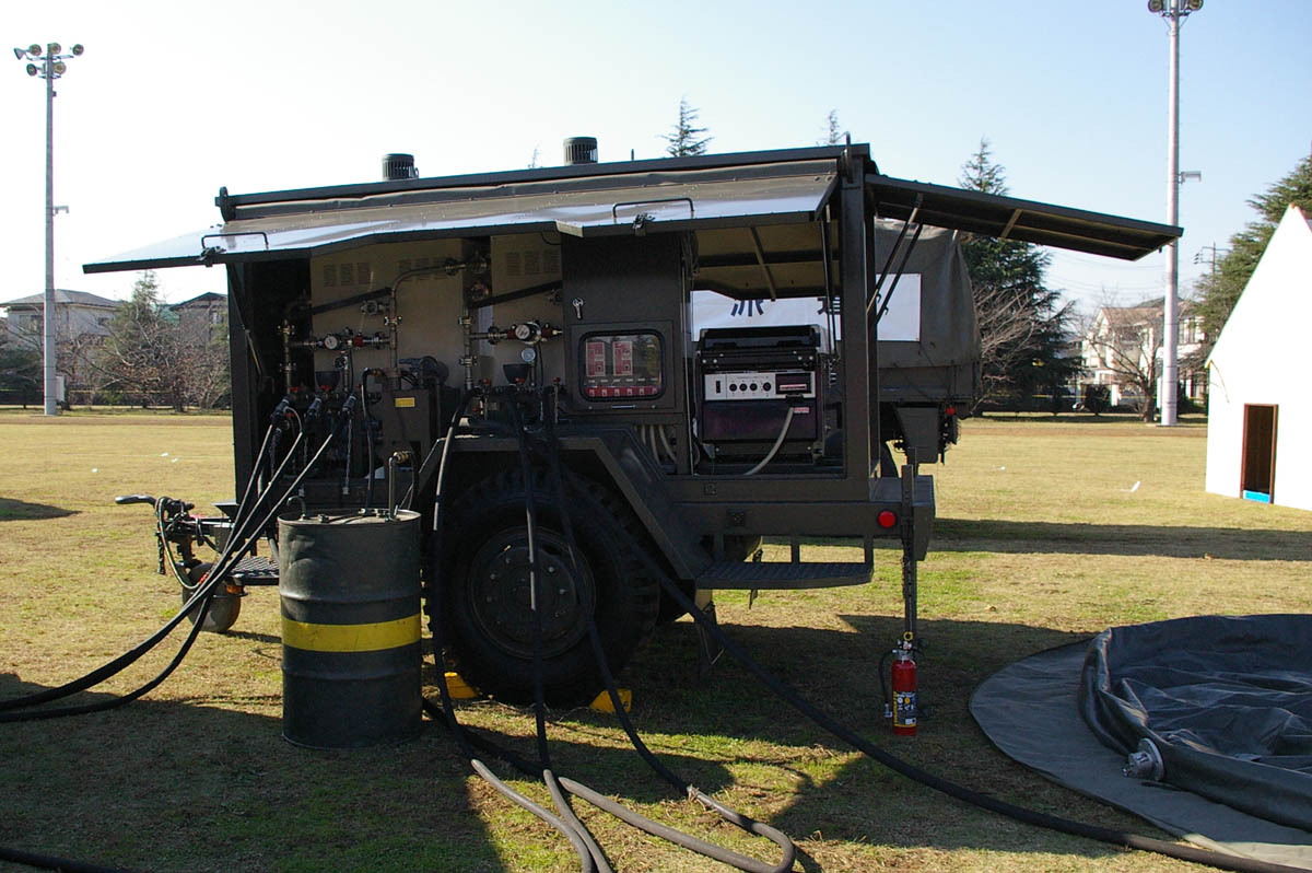 In Camp Matsudo,Japan.